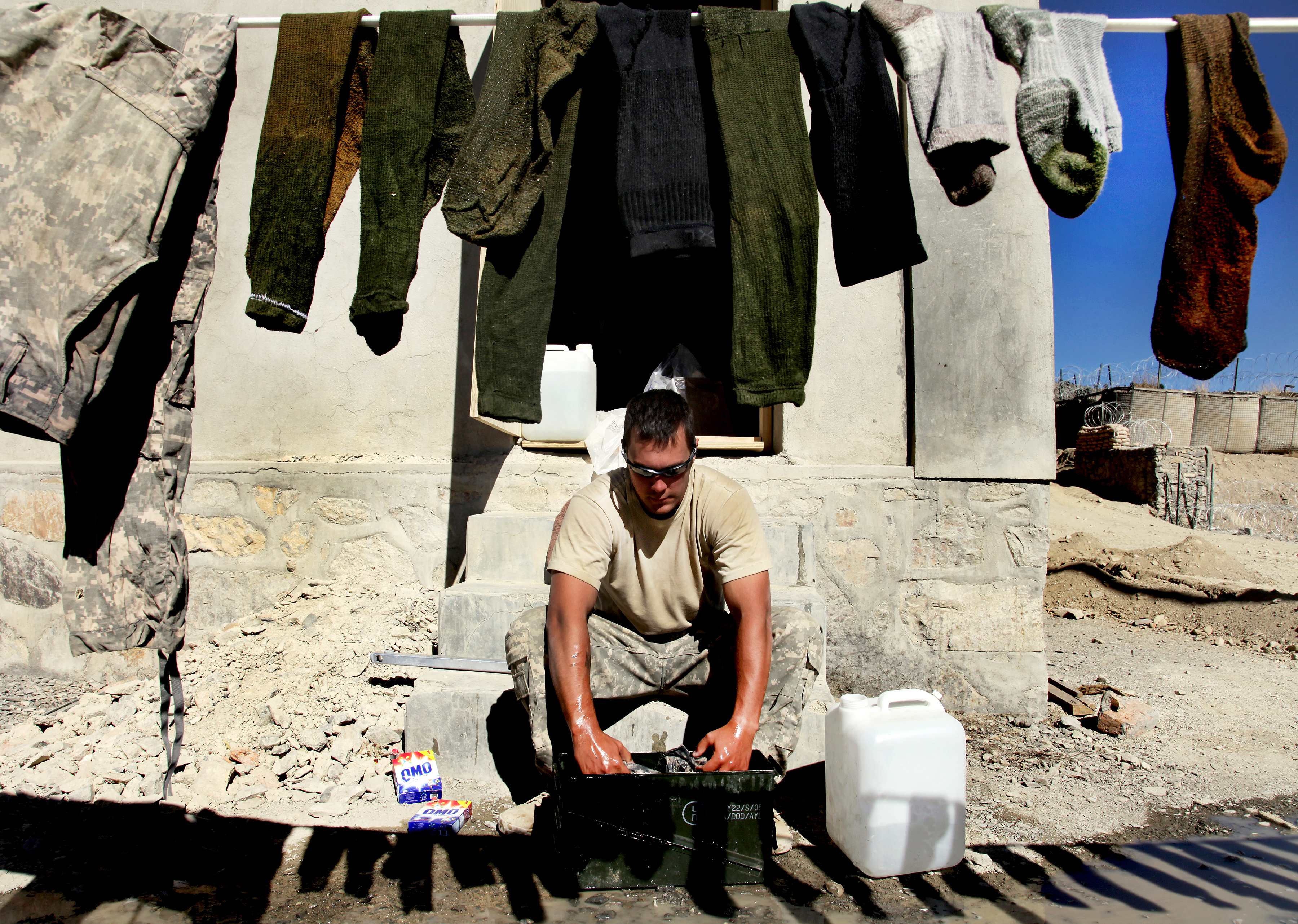 U.S. Army Staff Sgt. Matt Leahart washes his clothes in an ammunition can on Combat Outpost Munoz in Paktika province, Afghanistan, Nov. 13, 2009. Leahart is deployed with Company B, 3rd Battalion, 509th Infantry. U.S. Army photo by Staff Sgt. Andrew Smith See more at